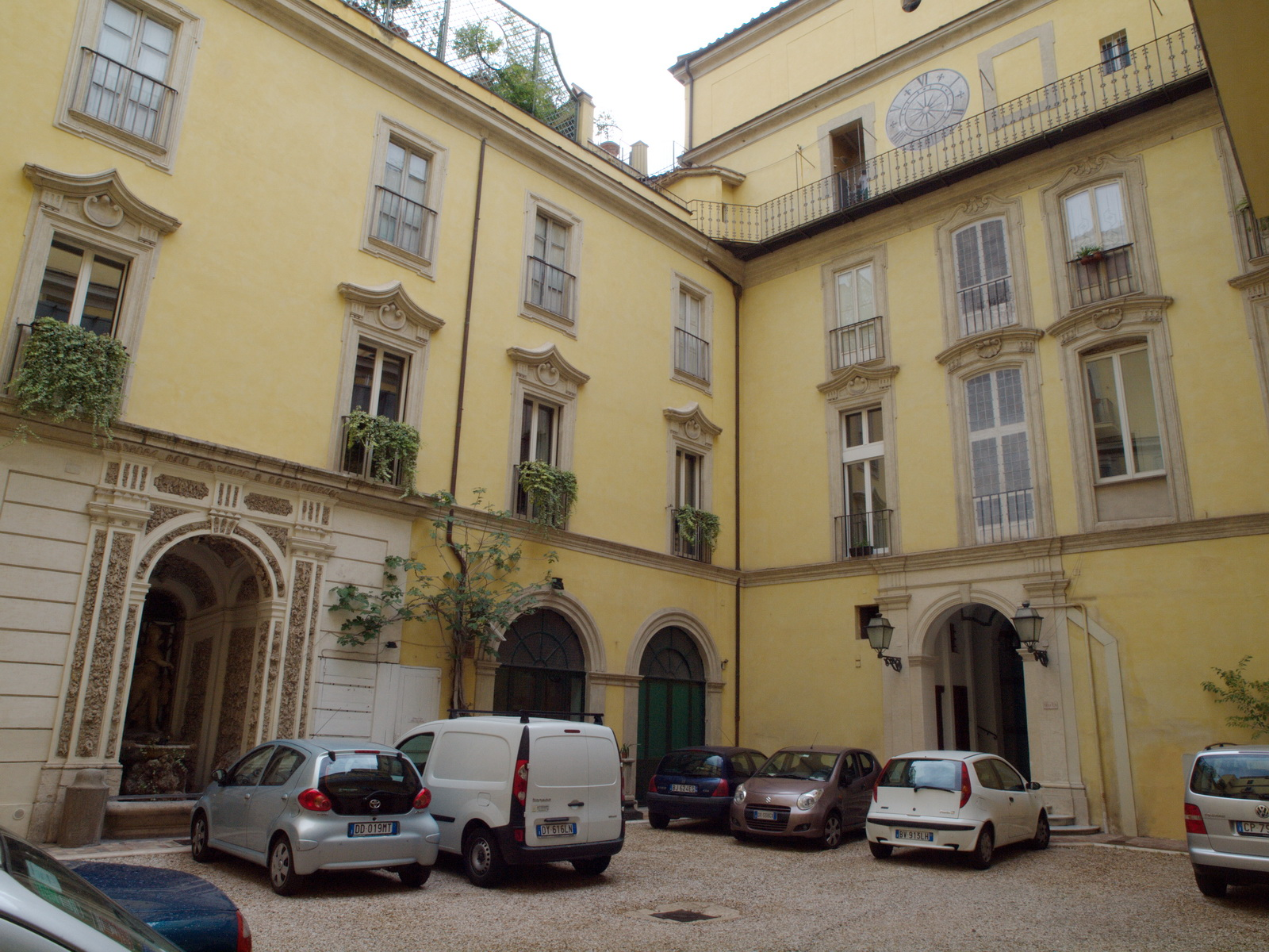 orologio a sei ore